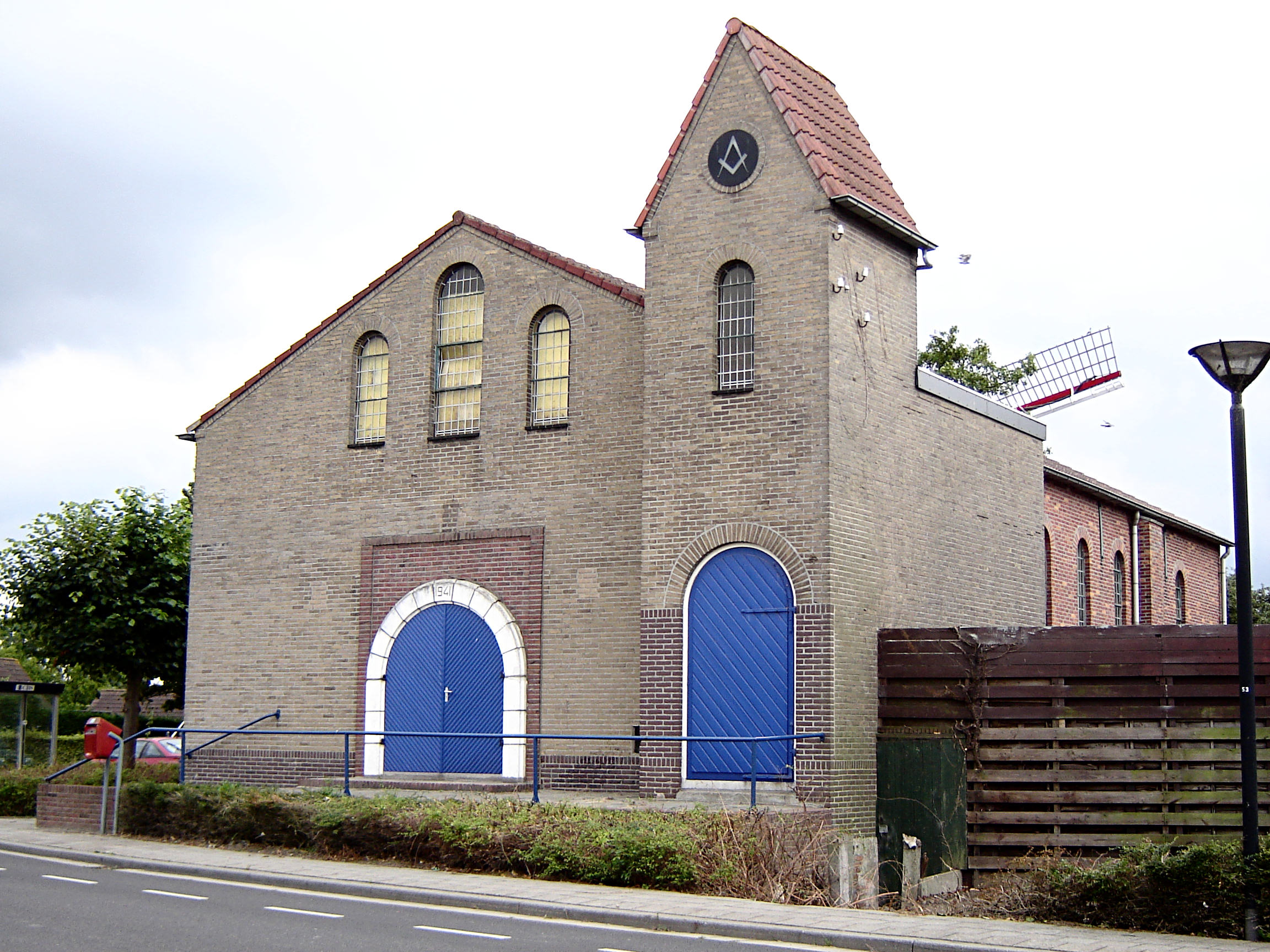 Former church of the Reformed Churches in the Netherlands (until 1974), since 1975 a masonic lodge, in Spui, Terneuzen, Zeeland, Netherlands.